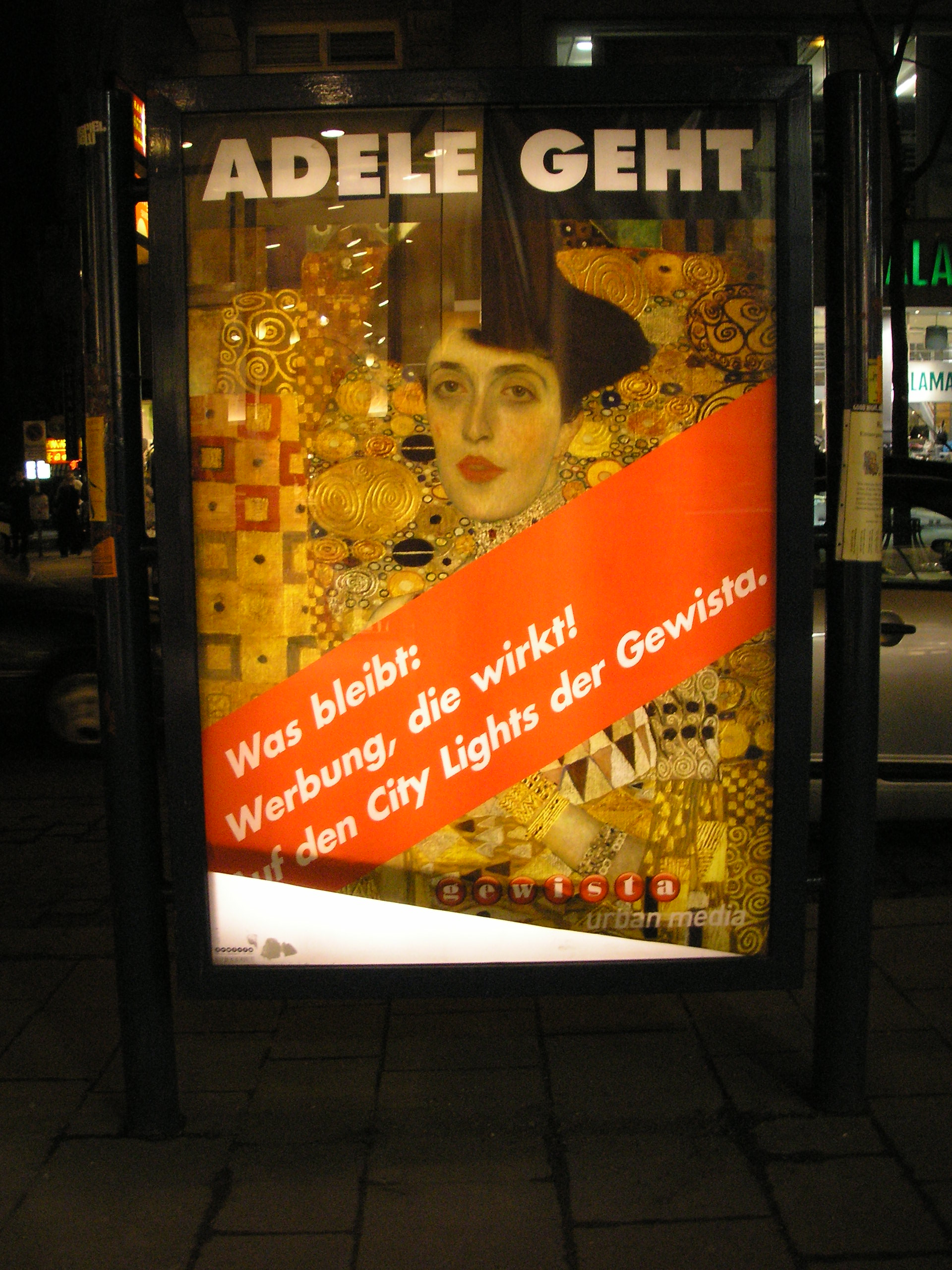 Poster saying goodbye to the painting "Adele Bloch-Bauer" in Vienna, March 2006. Actual translation: Adele goes What remains: Advertising that works! At City Lights by Gewista